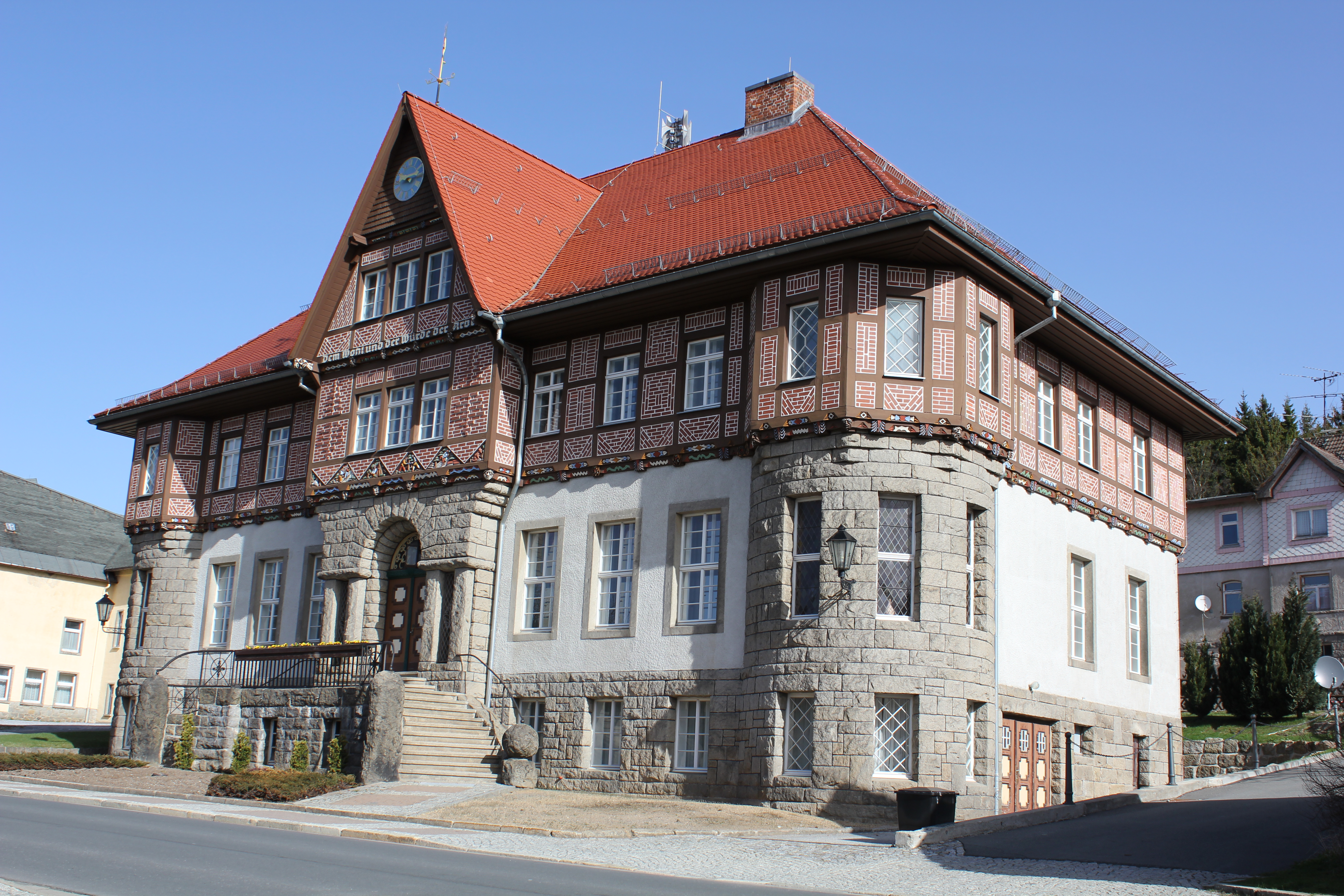 The townhall of Schierke